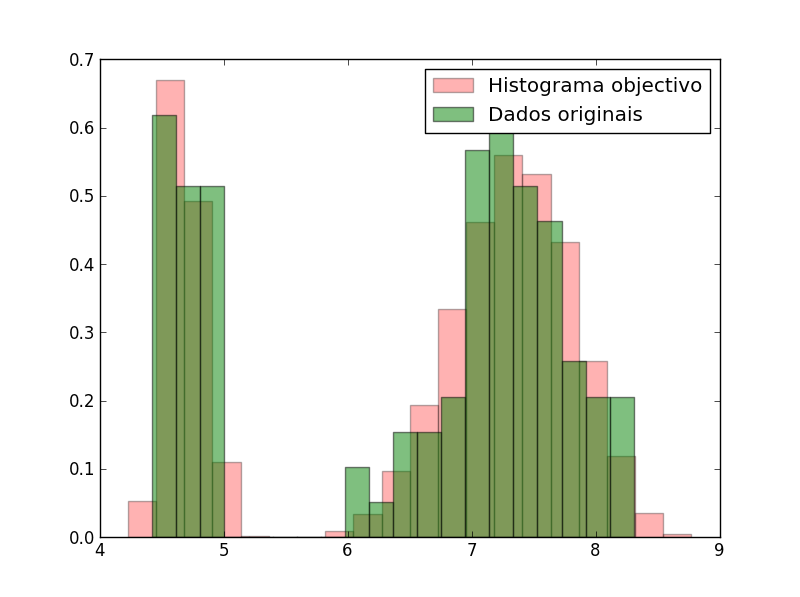 Histogram of an objective image by oposition to a data set set retrieved from the same image.